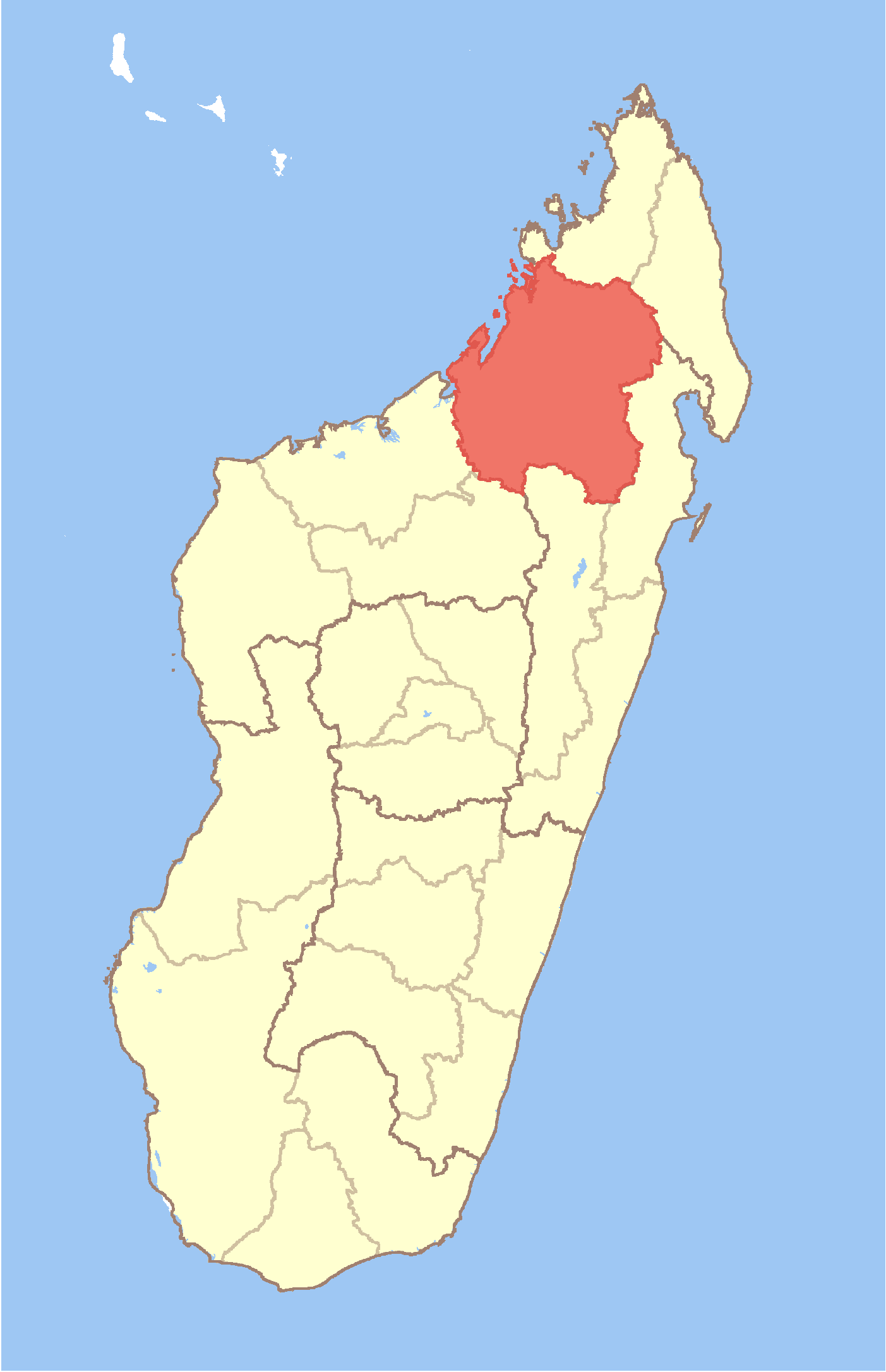 Map of Madagascar with Sofia Region highlighted.